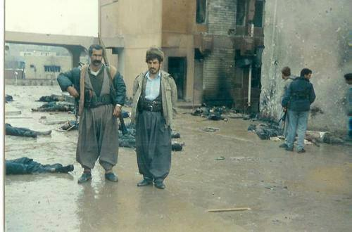 Uprising of Kurdish People in Kurdistan Region - Controlling Amna Suraka (The Red Castle) of Sulaimani